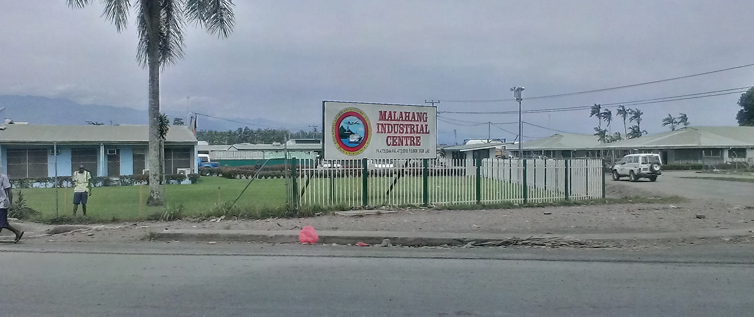 Photo of Malahang Industrial Area,Lae, Morobe Province. Photo taken 30 January 2014